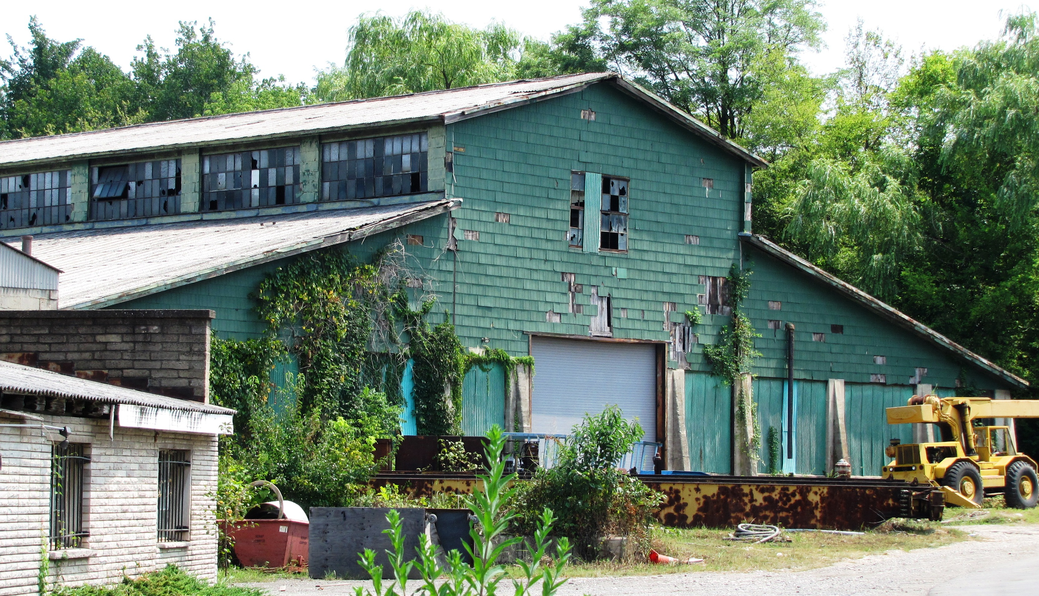 The cutting facility of the Candoro Marble Works in the Vestal community of Knoxville, Tennessee, USA. Built in 1914, this structure is now listed as a contributing building within the NRHP-listed Candoro Marble Works historic district.